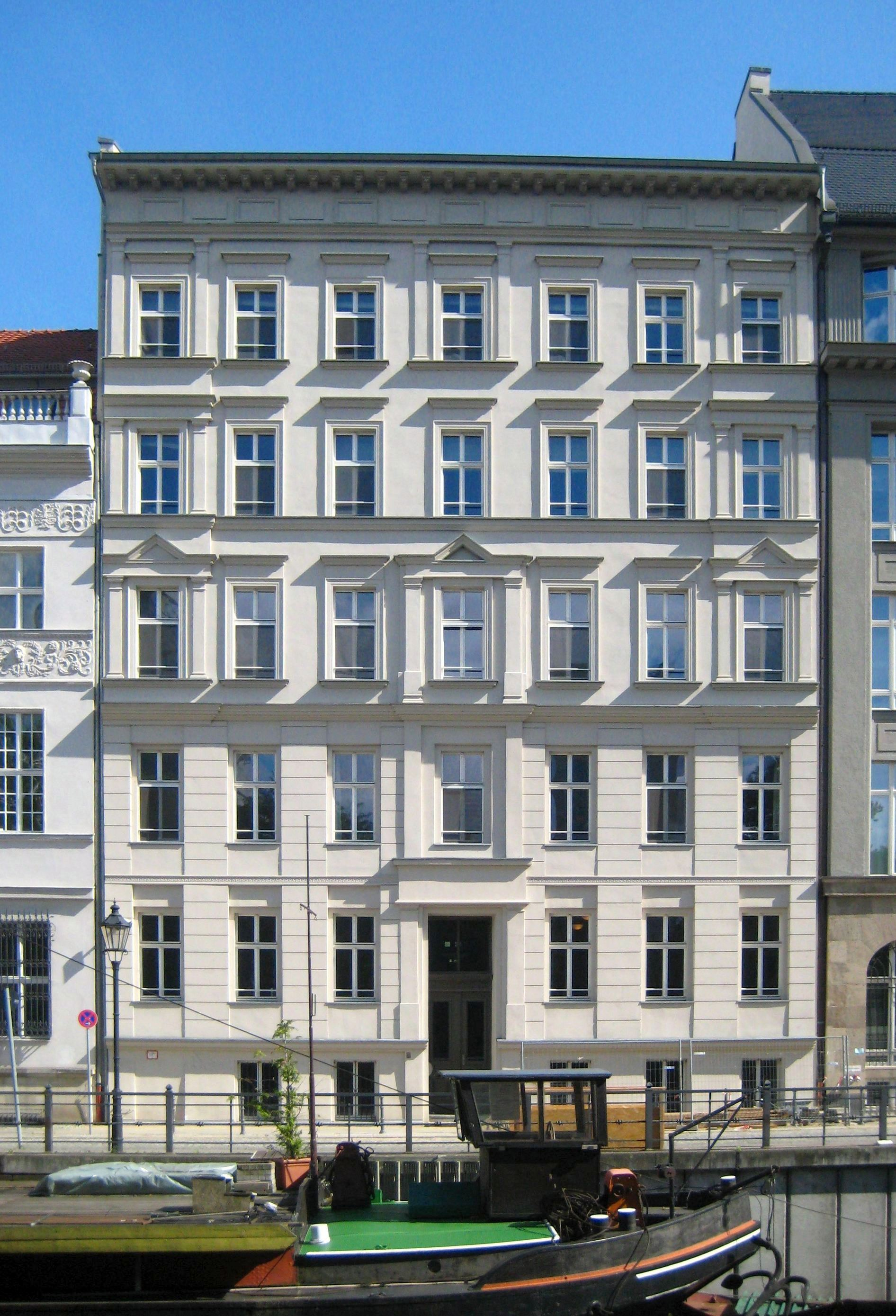 Former apartment building at Märkisches Ufer No. 8 in Berlin-Mitte, now part of the Australian Embassy complex on Wallstraße. The five-story building with timber beam ceilings was built in 1886 for the master bricklayer David Miersch. In 1978, it was annexed to the neighboring building of the Dietz publishing house (Wallstraße No. 76-79 and Märkisches Ufer No. 6); afterwards it was used as guest house of the SED. In 1996, the government of Australia purchased the two buildings and established its new embassy here. The building Märkisches Ufer No. 8 is landmarked.